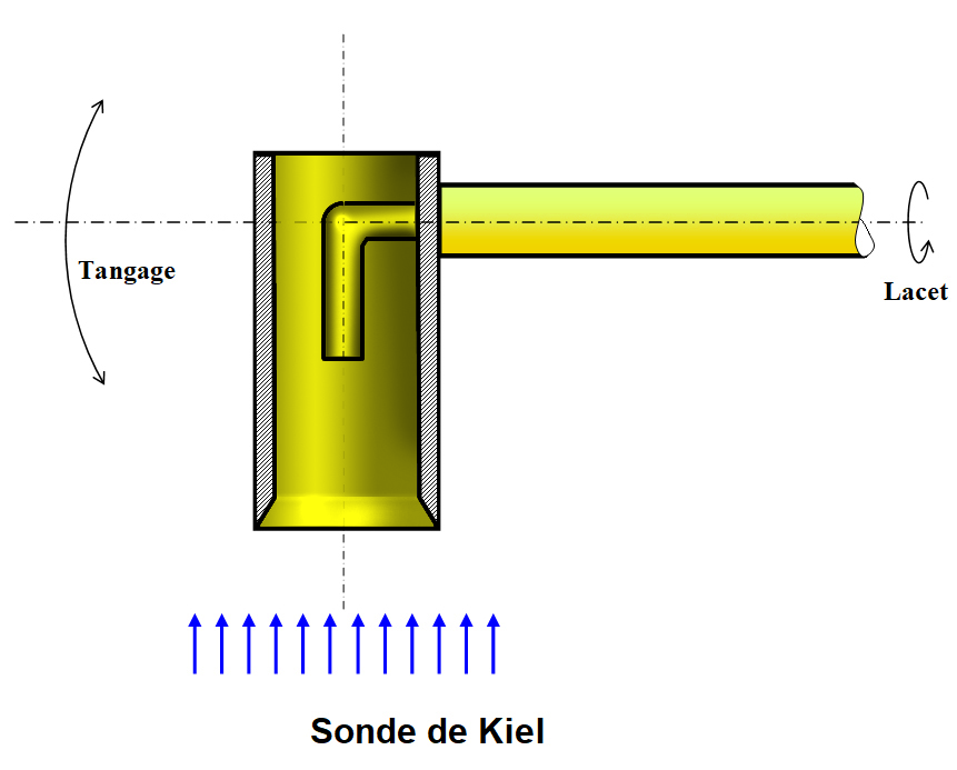 Kiel probe. This sensor only measures the total pressure, but it measures it correctly with up to 64 ° yaw or pitch. After ANGULAR FLOW INSENSITIVE PITOT TUBE SUITABLE FOR USE WITH STANDARD STACK TESTING EQUIPMENT, Mitchell, Blagun, Johnson and Midgett, [2]